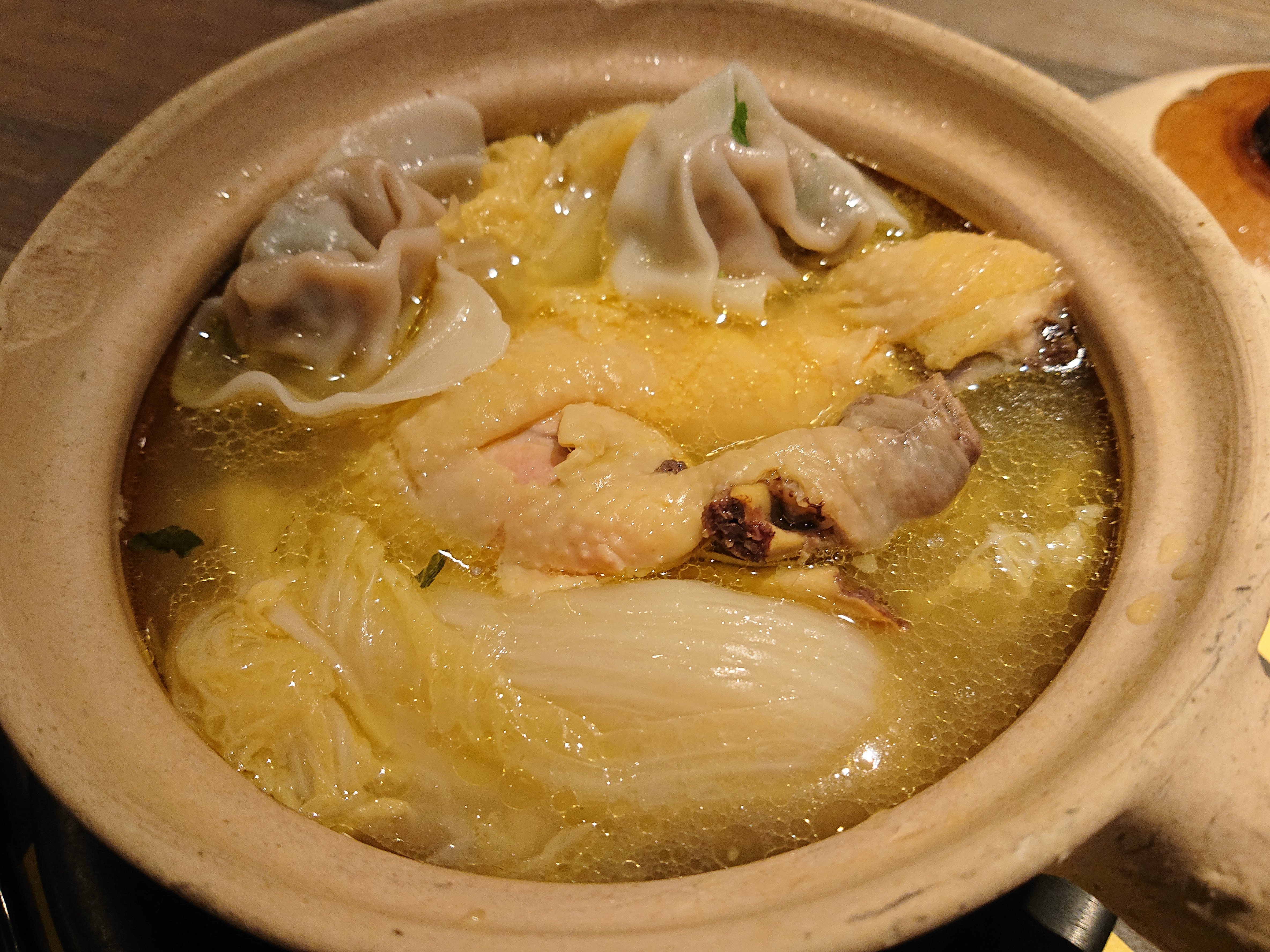 Wonton Chicken Soup in Claypot